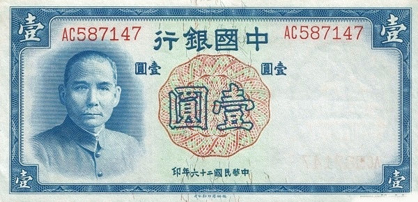 A Chinese banknote issued by the Bank of China during the period that the government of the Republic of China administered the Chinese Mainland. This banknote was issued to circulate all over the territories held by the Republic of China at the time.